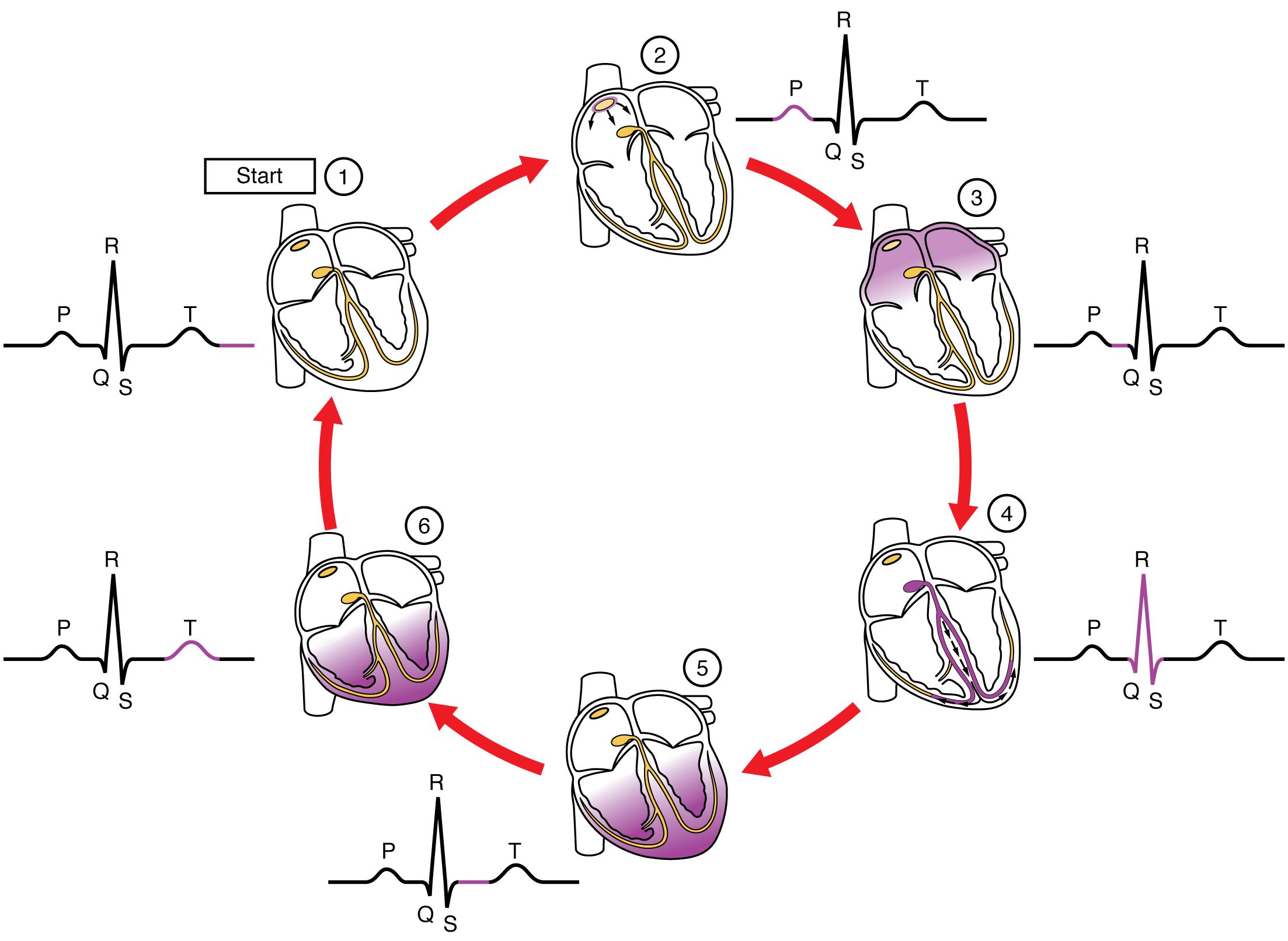 Illustration from Anatomy & Physiology, Connexions Web site. Jun 19, 2013.